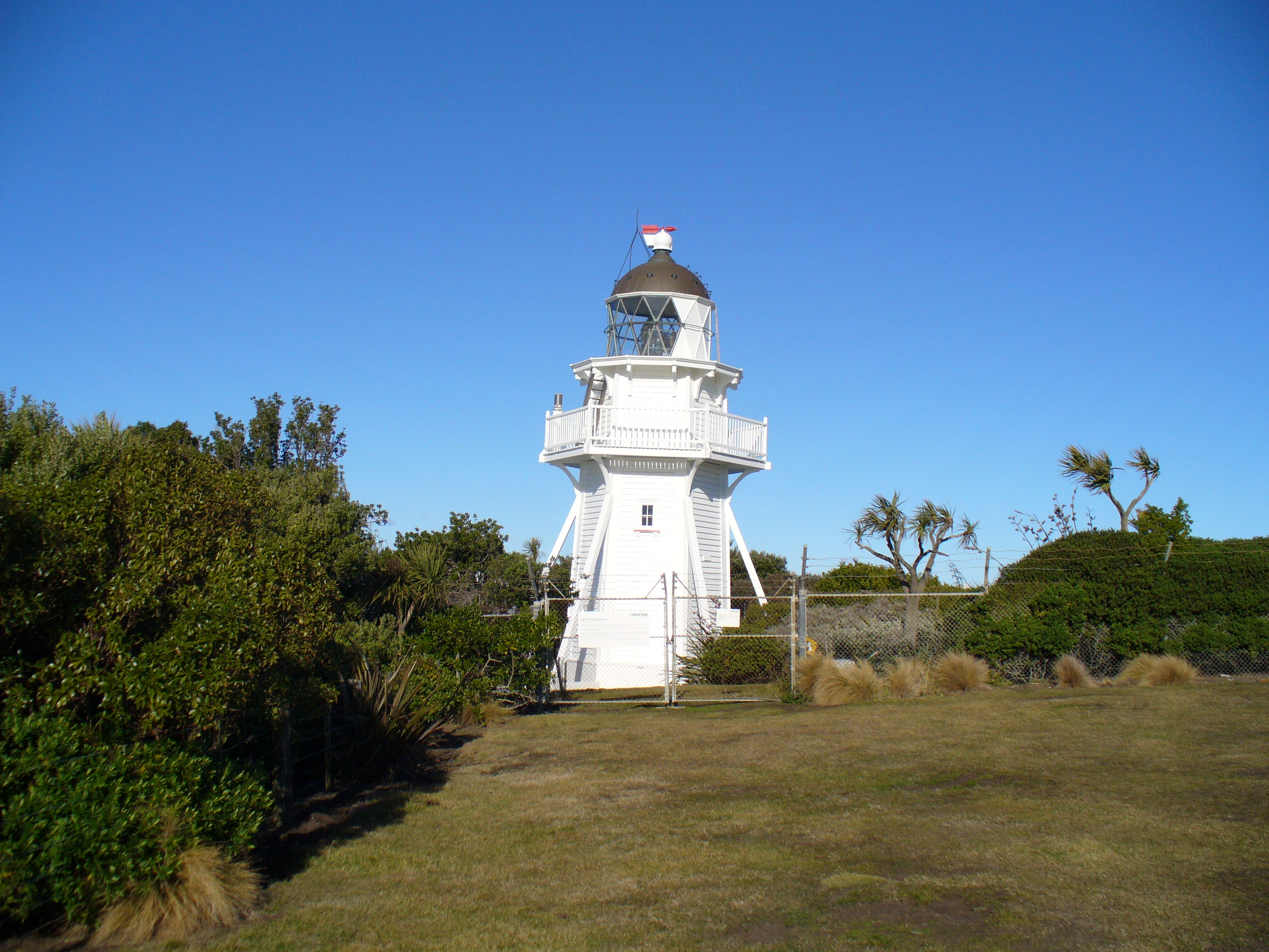 Katiki Point Lighthouse, Otago, New Zealand, from the Northern side. Took photo myself.